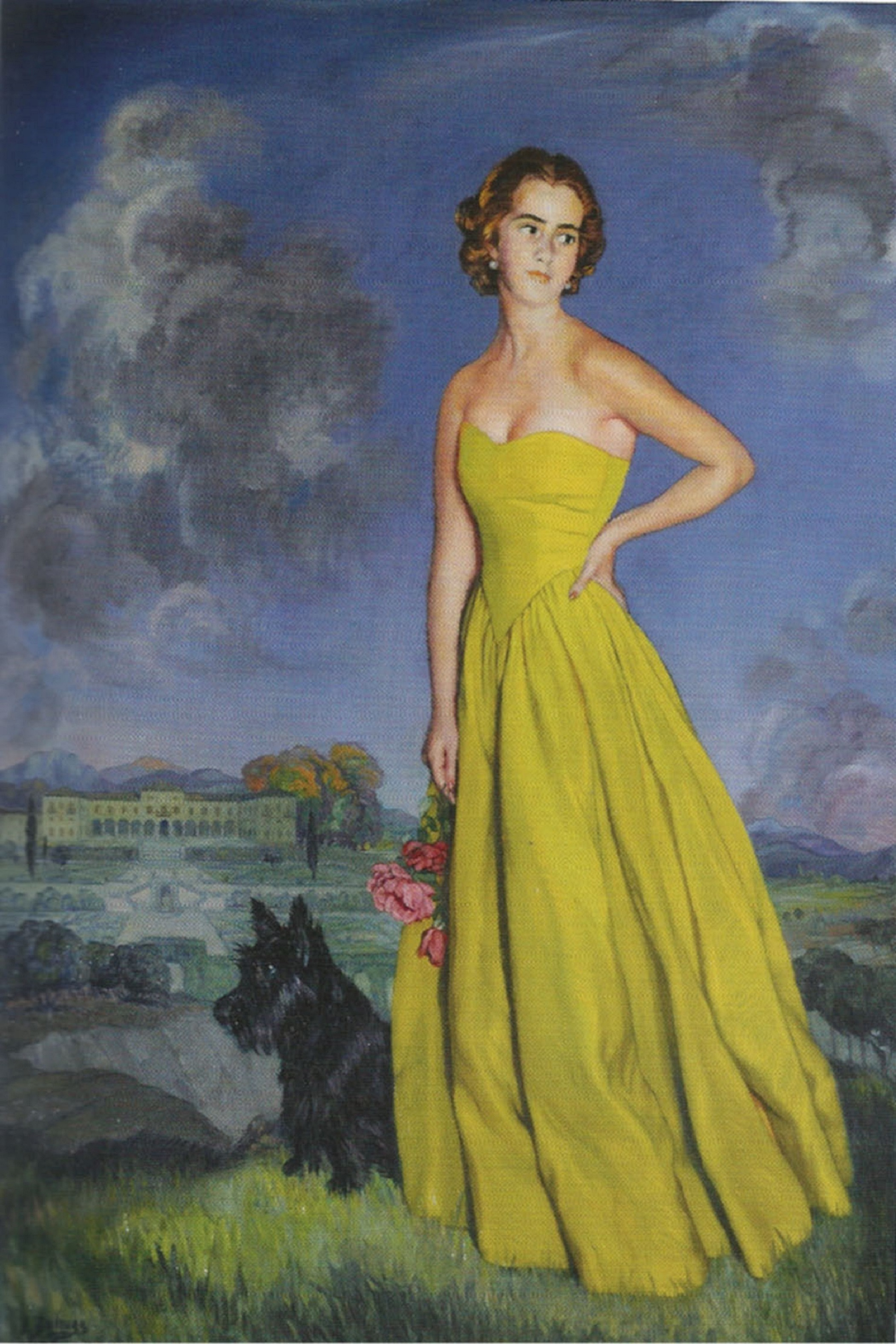 Portrait of Princess Sveva Colonna